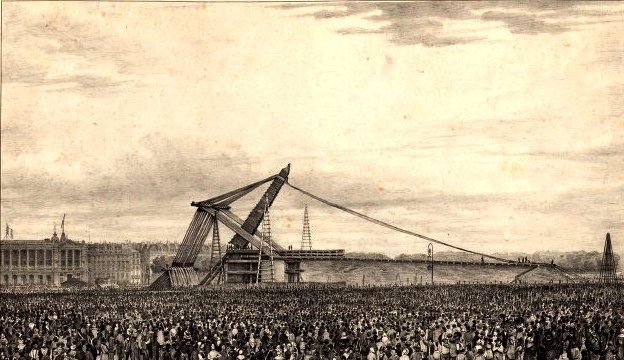 Erection of the Luxor Obelisk in 1836